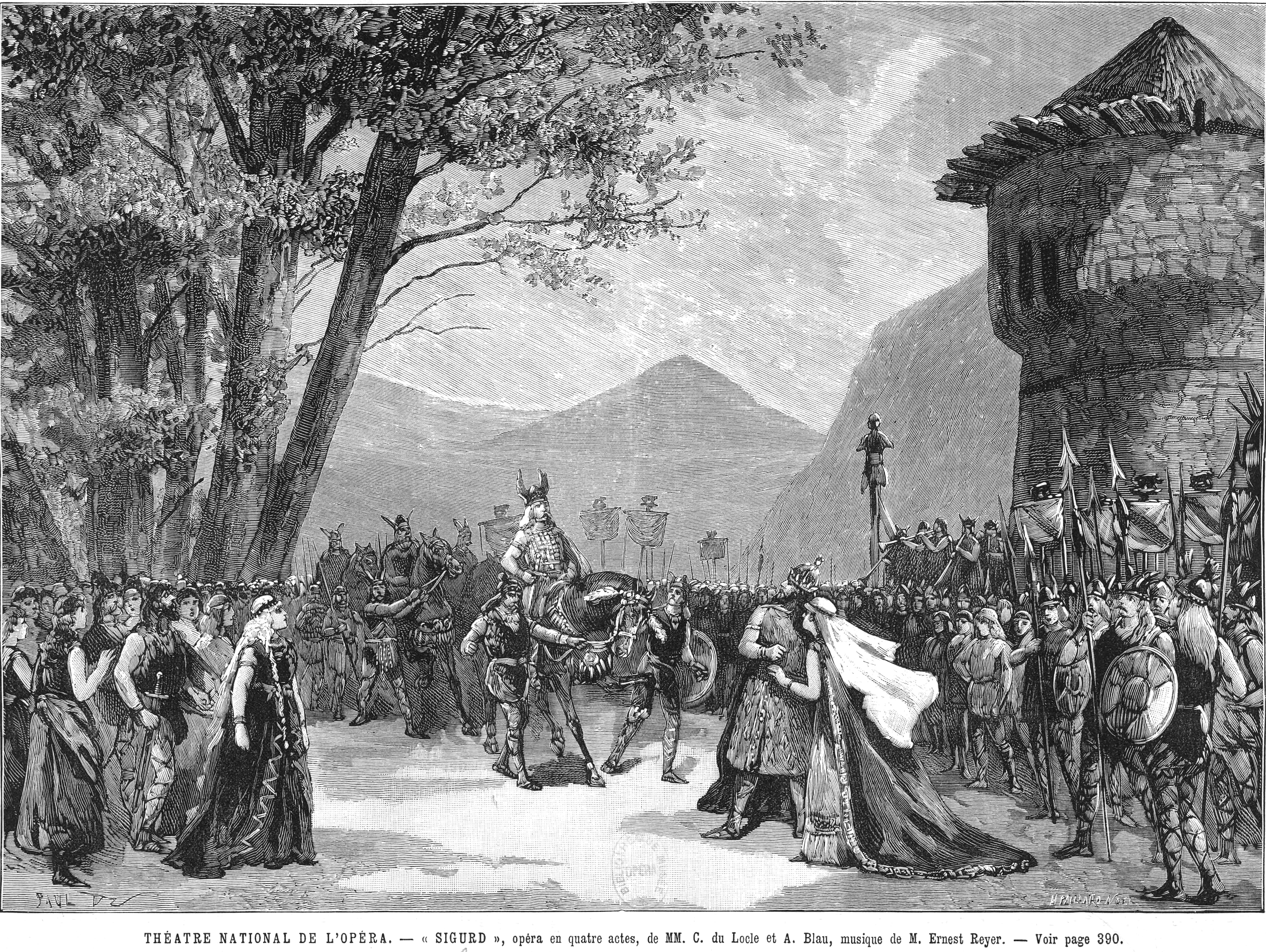 Ernest Reyer - Sigurd - Palais Garnier, 12-06-1885 - 3.acte 2.tableau - terrasse devant le château